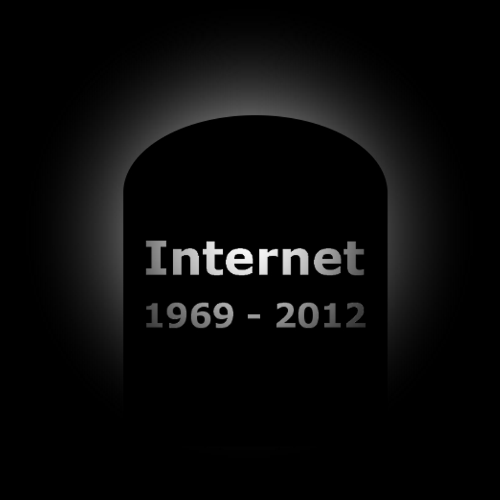 SOPA is killing the free Internet RIGHT NOW